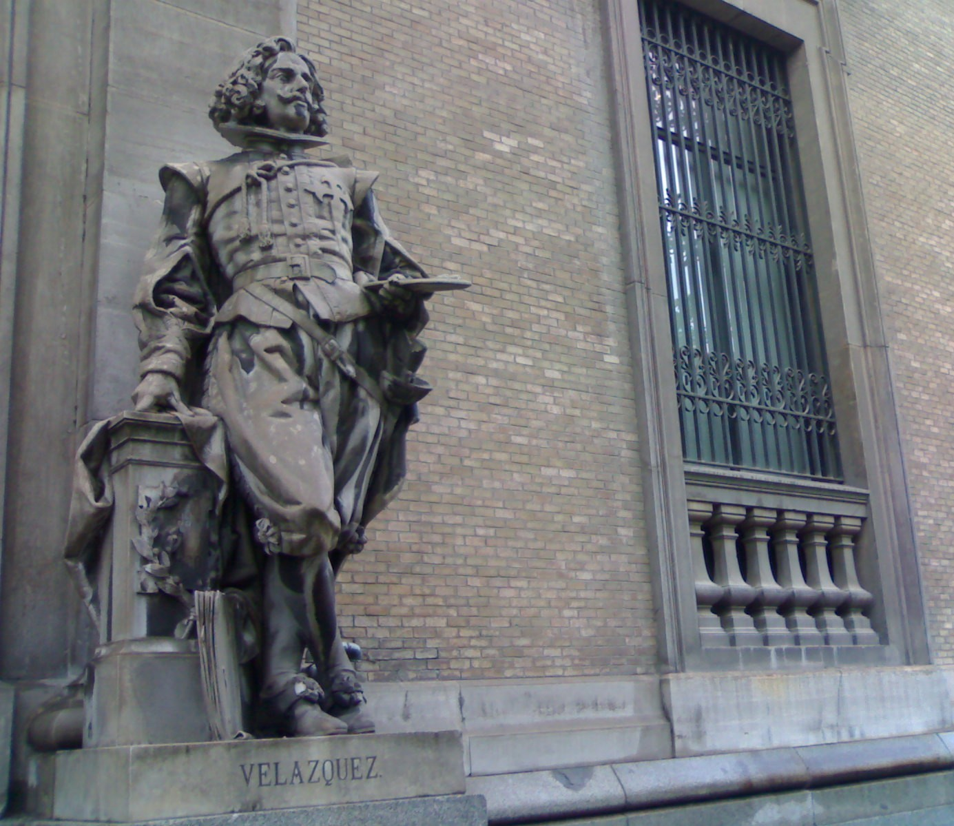 Statue of painter Diego Velázquez (1599–1660) next to the entrance of the National Archaeological Museum of Spain, in Madrid. Sculpted in Italian white marble by Celestino García Alonso in 1892.